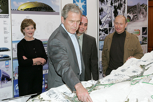 BOCHAROV RUCHEI, SOCHI. With American President George W. Bush and First Lady Laura Bush examining the models of the Olympic facilities for Sochi 2014.